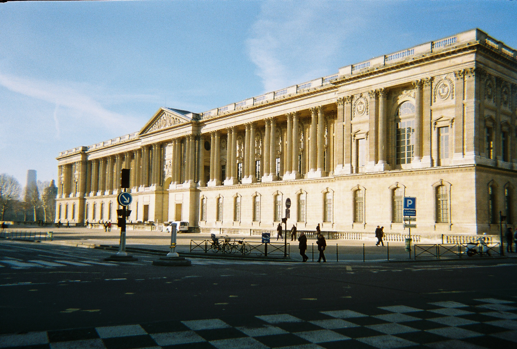 The eastern end of the Louvre caught in the stark contrast of January sunlight against the shadow cast upon the rue de Rivoli .